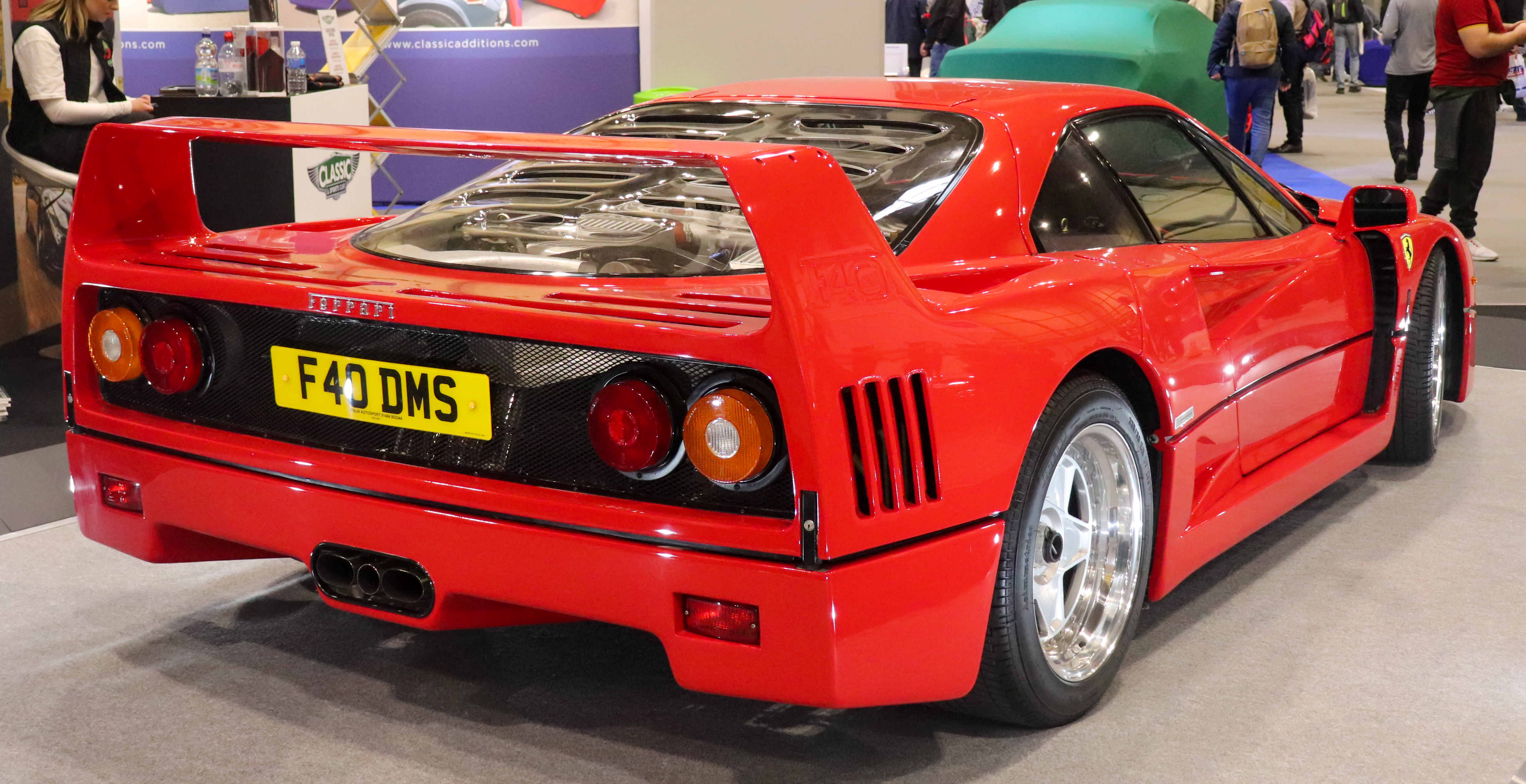 1990 Ferrari F40 2.9 Rear Taken at the NEC Classic Motor Show 2019